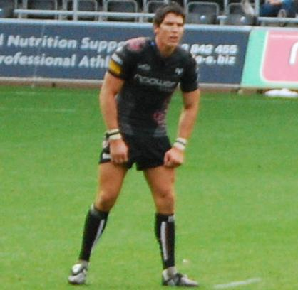 James Hook Depicted person: James Hook – Welsh rugby union player